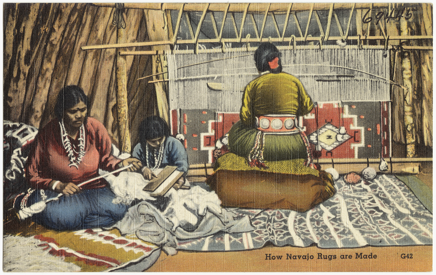 File name: 06_10_015534 Title: How Navajo rugs are made Created/Published: Pub. by Southwest Arts & Crafts, Santa Fe, New Mexico; Tichnor Bros. Inc., Boston, Mass. Date issued: 1930 - 1945 (approximate) Physical description: 1 print (postcard) : linen texture, color ; 3 1/2 x 5 1/2 in. Genre: Postcards Notes: Collection: The Tichnor Brothers Collection Location: Boston Public Library, Print Department Rights: No known restrictions Flickr data on 2011-08-16: Camera: Epson Exp10000XL10000 Tags: postcard, tichnor brothers, New Mexico License: CC BY 2.0 User: Boston Public Library